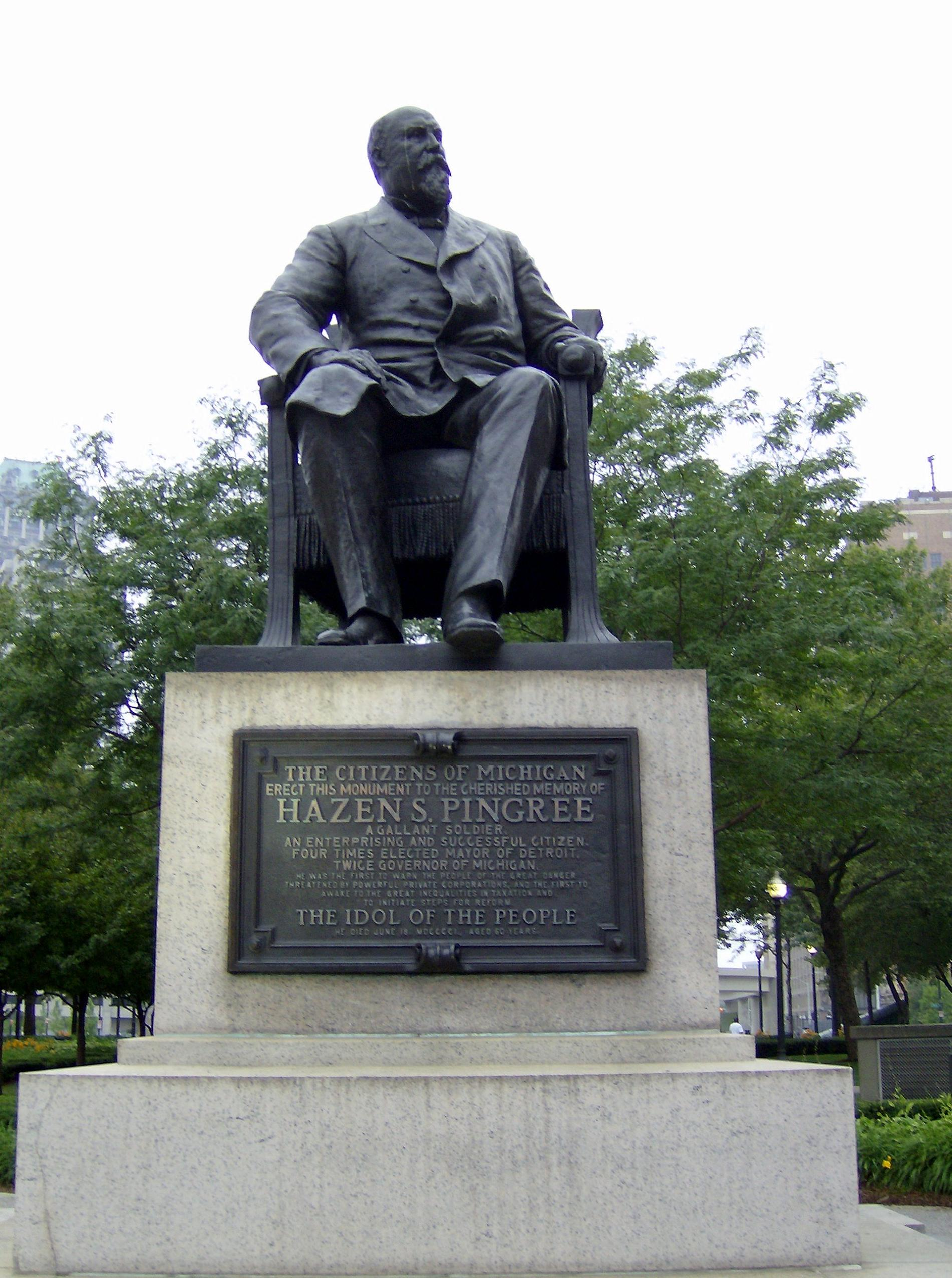 Hazen Pingree statue, Grand Circus Park, downtown Detroit Date: 1903 Sculptor: Rudolph Schwarz (1856-1912) — [1]